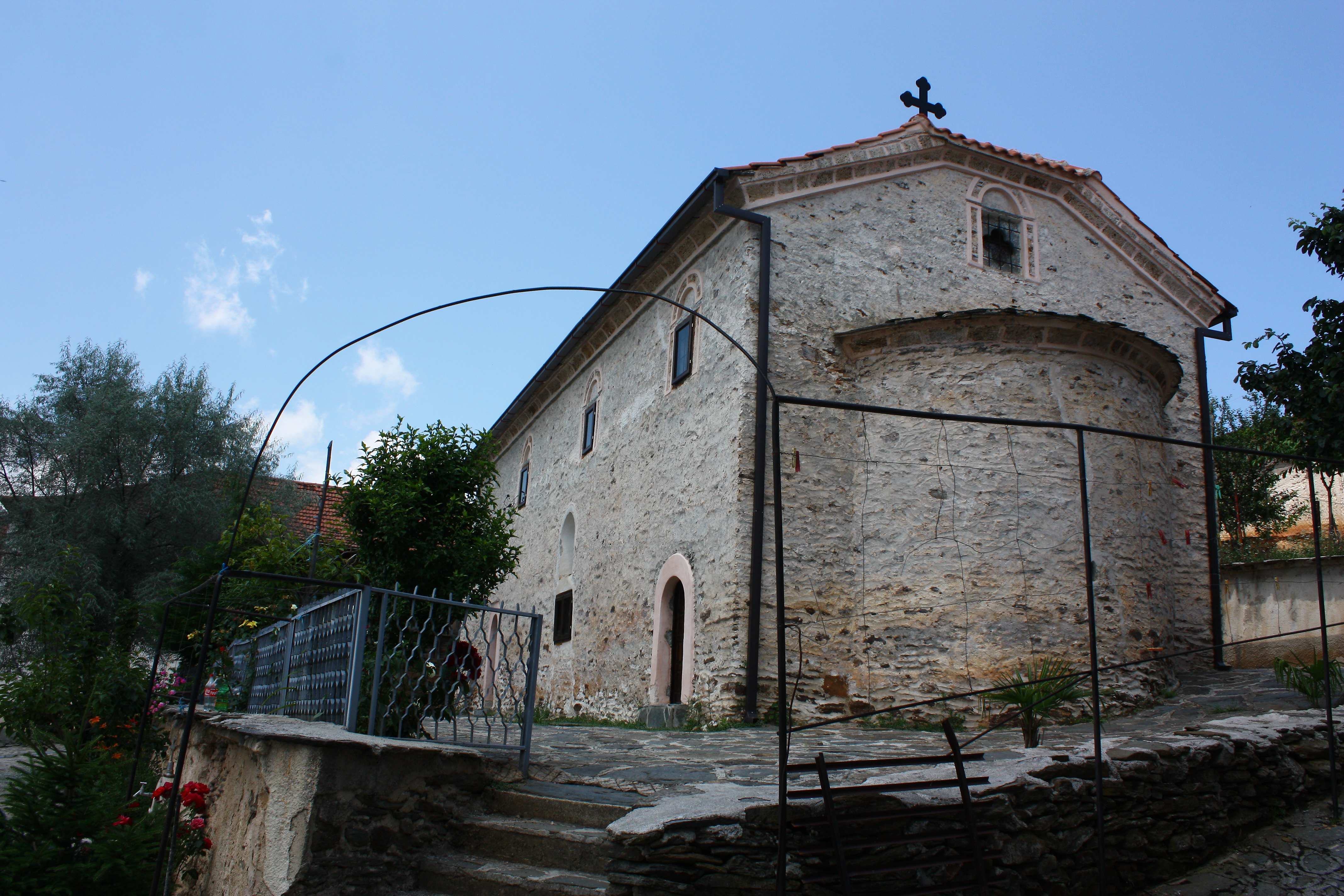 Poreče Monastery in village of Gorni Manastirec near Makedonski Brod, Macedonia